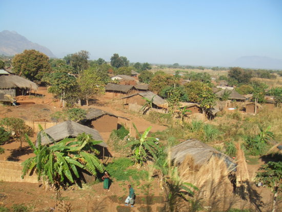 A village in northern Cuamba, Mozambique